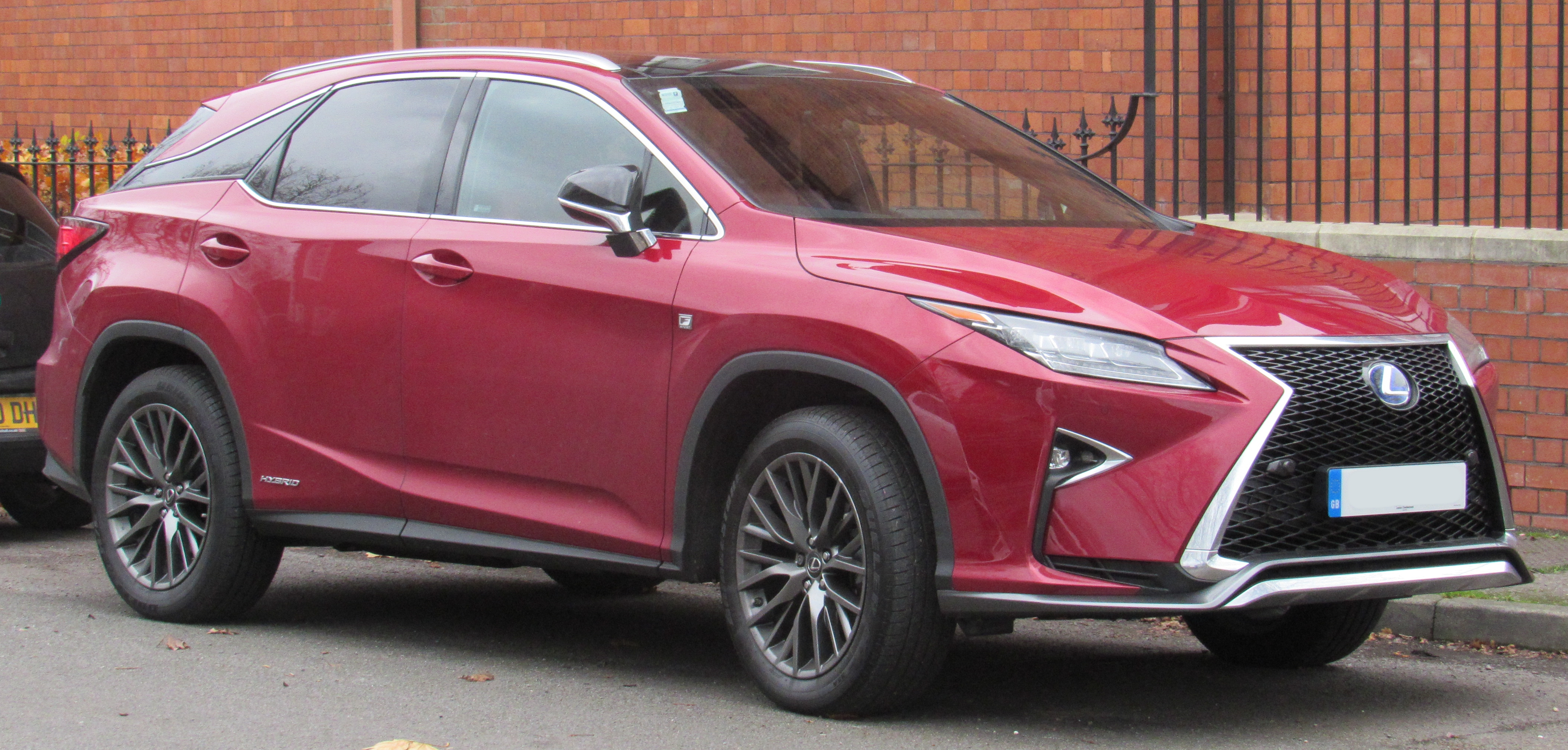 2016 Lexus RX 450h F Sport CVT 3.5 Taken in Leamington Spa